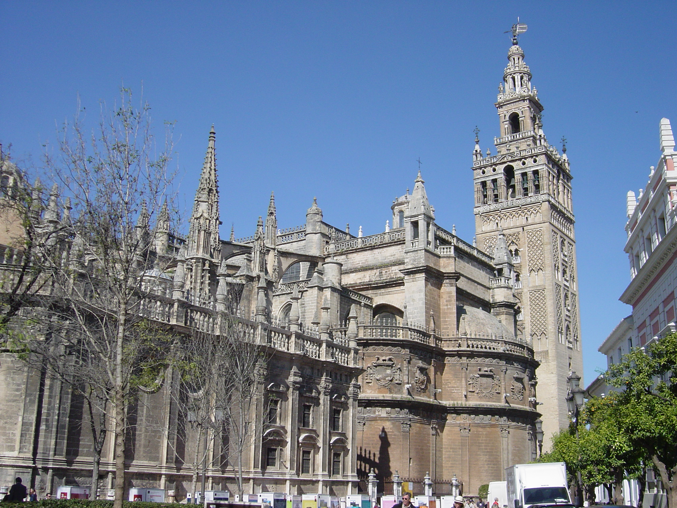 Sevilla Cathedral